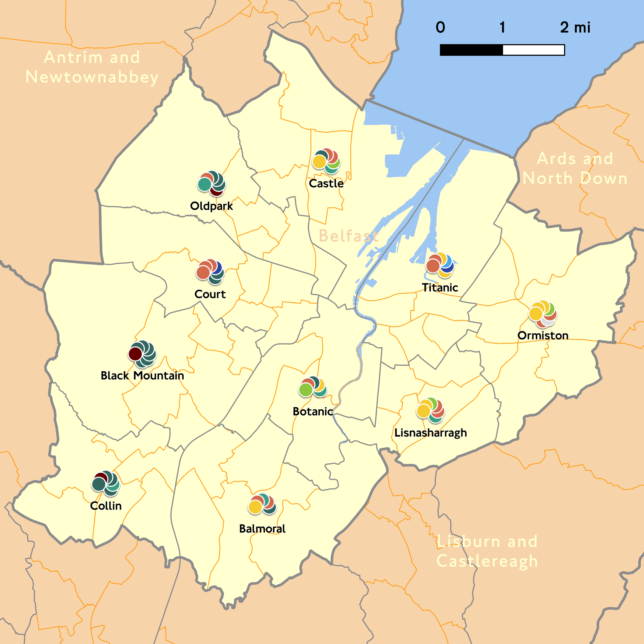 A map of current party strengths on Belfast City Council. Seats are ordered front-to-back/clockwise within each district electoral area (DEA) by stage elected then by vote accumulated at that stage. District boundaries are in thick grey, DEA boundaries in thin grey and ward boundaries in orange. [Party key to follow] Update this file with changes of affiliation (and vacancies, in white, if protracted). Changes to date: 2 May 2019: Election 5 May 2019: Jim Rodgers (Ormiston 6) has UUP whip withdrawn